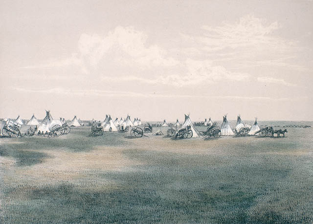 Half Breed Hunters' Camp near the Three Buttes